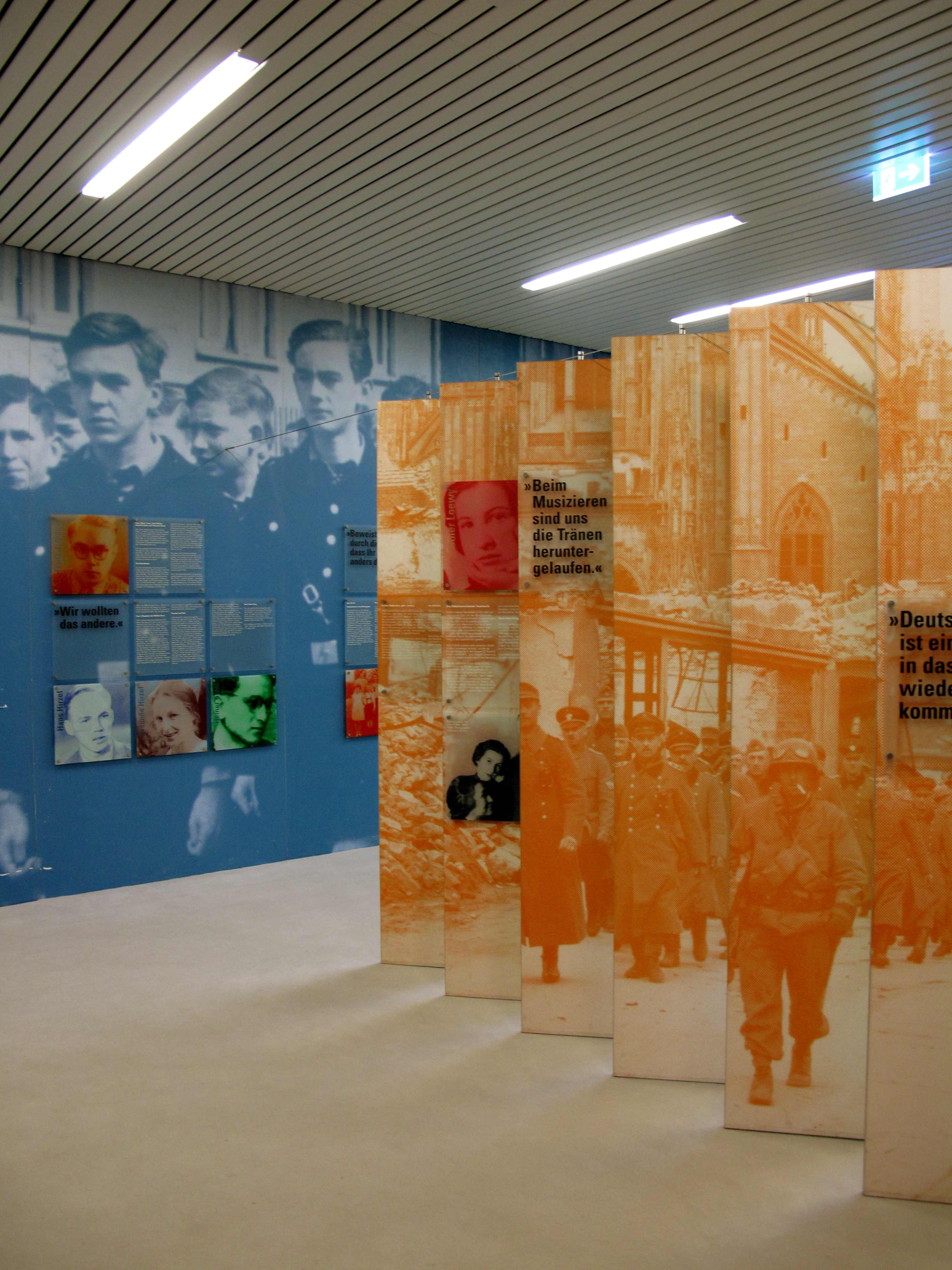 The Ulmer DenkStätte Weiße Rose is in the foyer of the EinsteinHaus, the headquarters of the Ulmer Volkshochschule (vh Ulm) (Adult Education Centre of Ulm) is a memorial for young people from Ulm who were in the resistance against the Nazi-Regime between 1933 and 1945 – amoung them also Hans and Sophie Scholl.